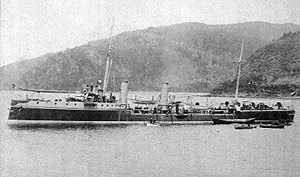 Torpedo boat Patricio Lynch of the Chilean army